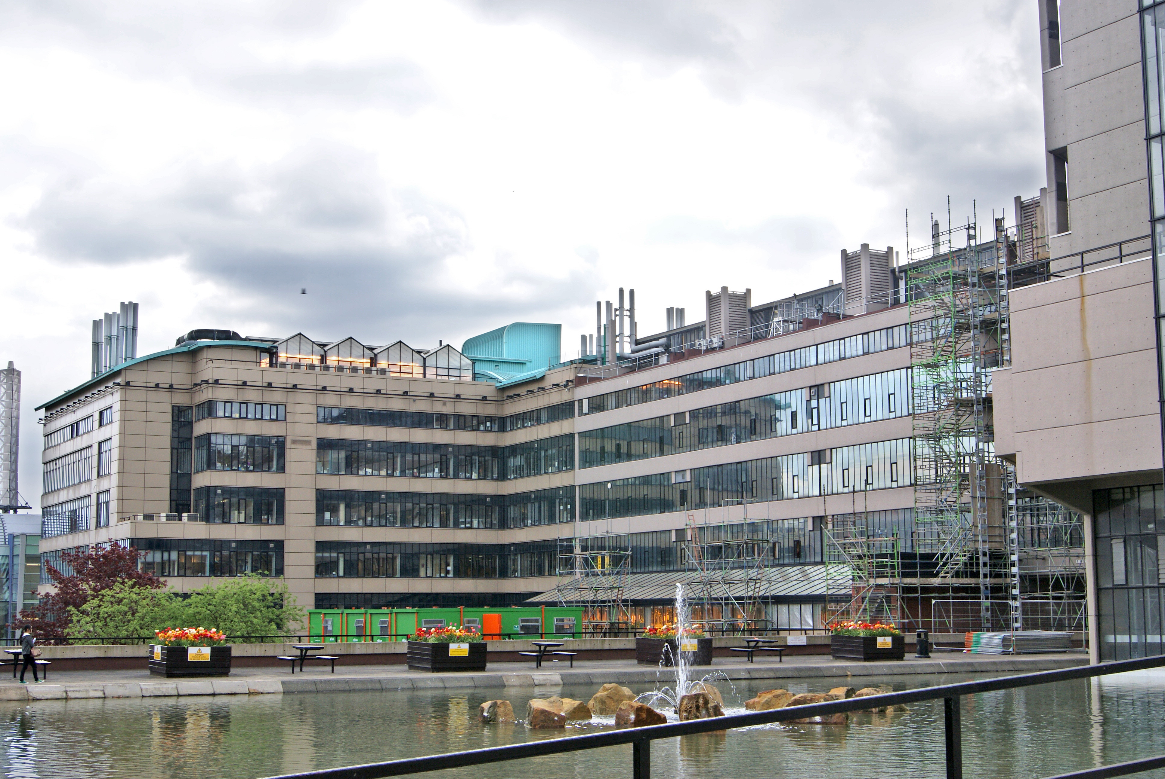 The rear of the Irene Manton Building (right) and the LC Miall Building (left). Part of the Roger Stevens Building can also be seen on the far right. Taken at the University of Leeds on the afternoon of Tuesday the 4th of May 2010.